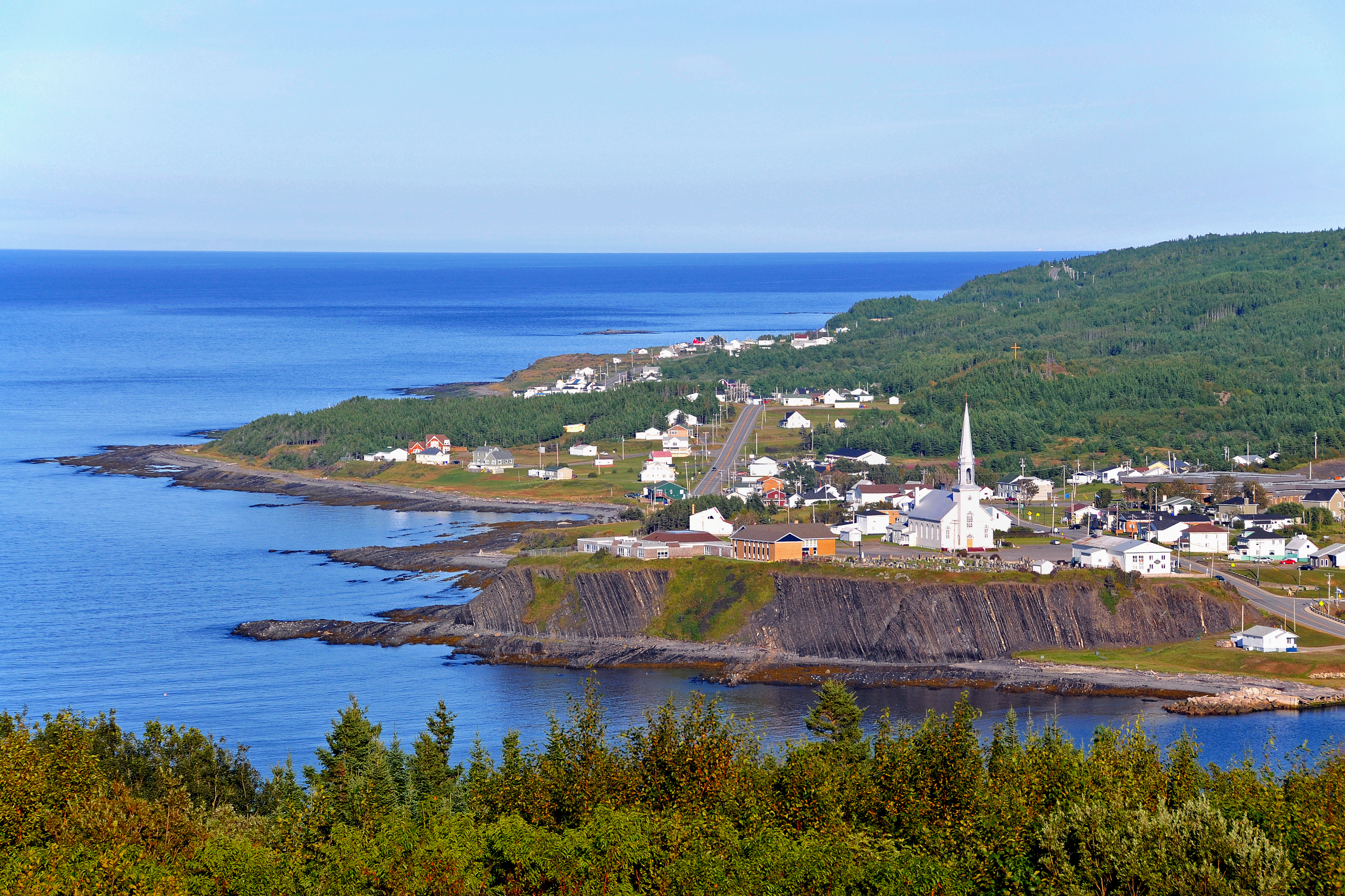 Grande-Vallée is a village situated halfway between Sainte-Anne-des-Monts and Gaspé, on the northern shore of the Gaspésie peninsula. It is one of the four villages forming the sector commonly known as « l'Estran ». It owes its name to the passing of an immense glacier many thousands of years ago. This glacier's passage left an indelible mark, in the form of a valley, amongst the robust Appalachian Mountains. Here, the mountains literally embrace the sea while the river marries its waters with her own.